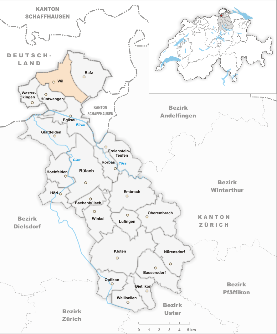 Municipality Wil